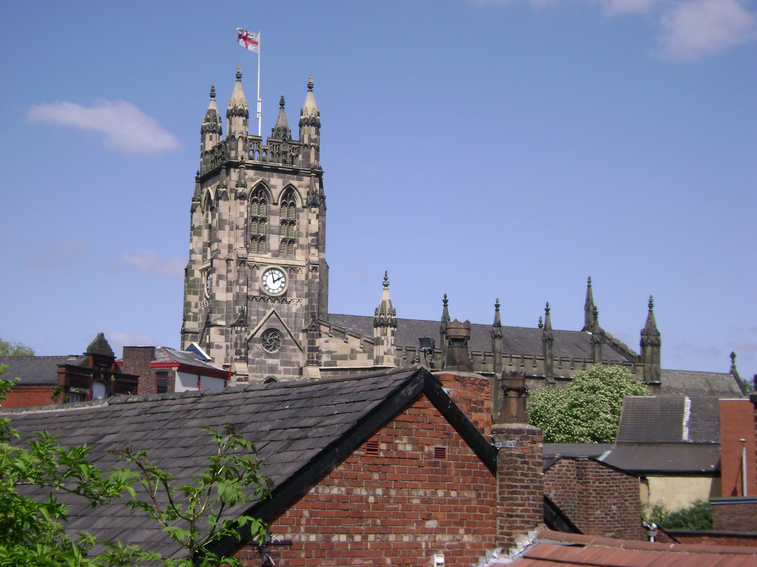 St Mary's parish church, Stockport, Greater Manchester, seen from the High street